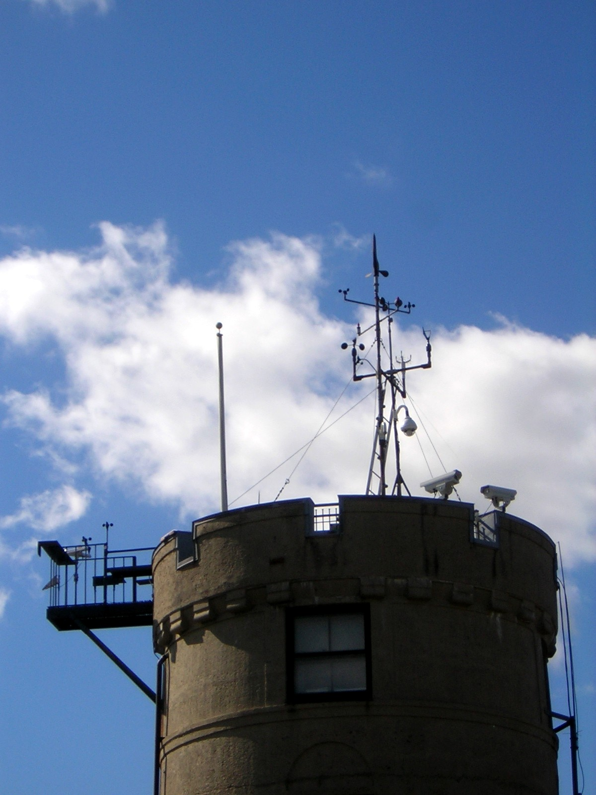 Great Blue Hill Weather Observatory, Milton, MA.